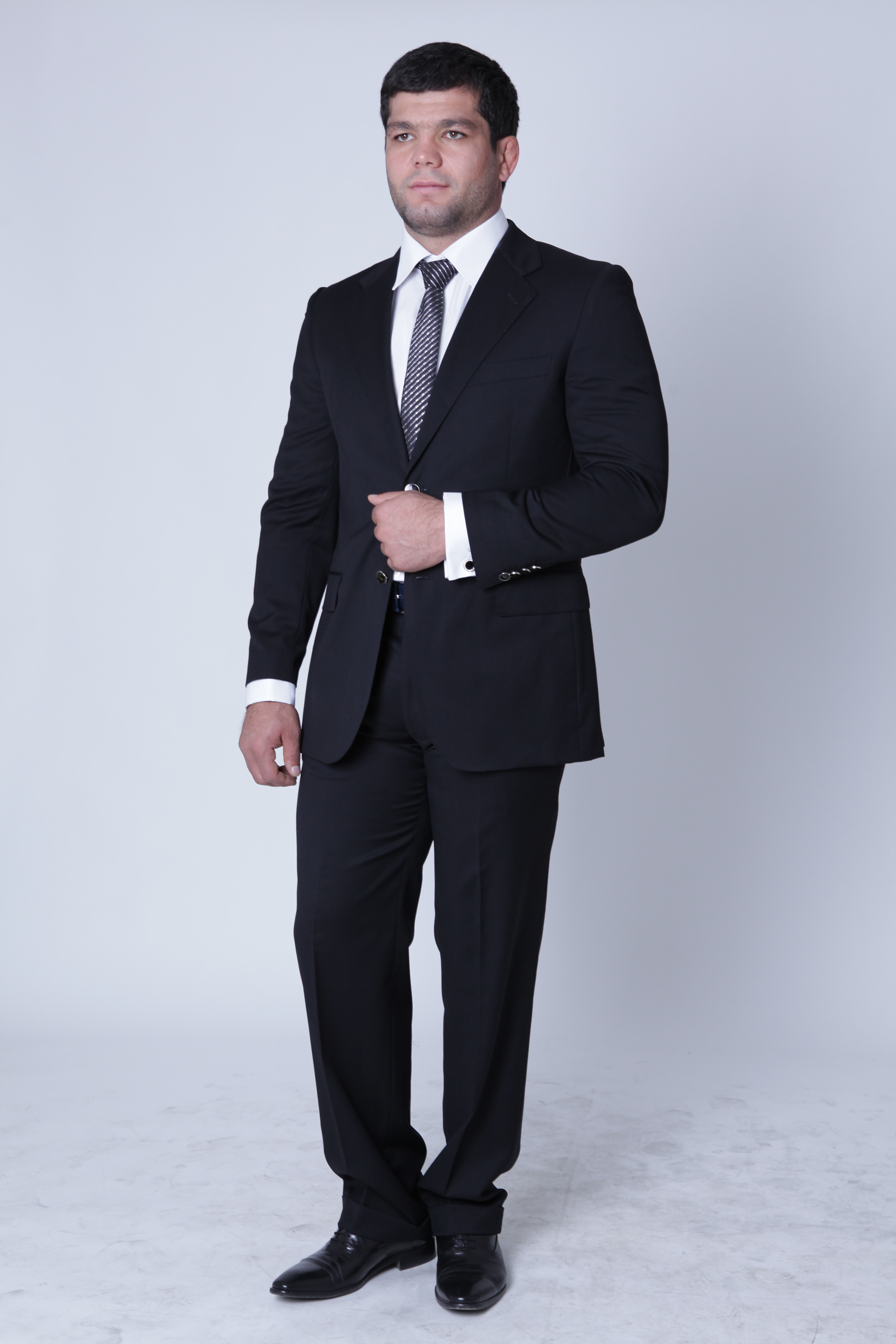 Науруз